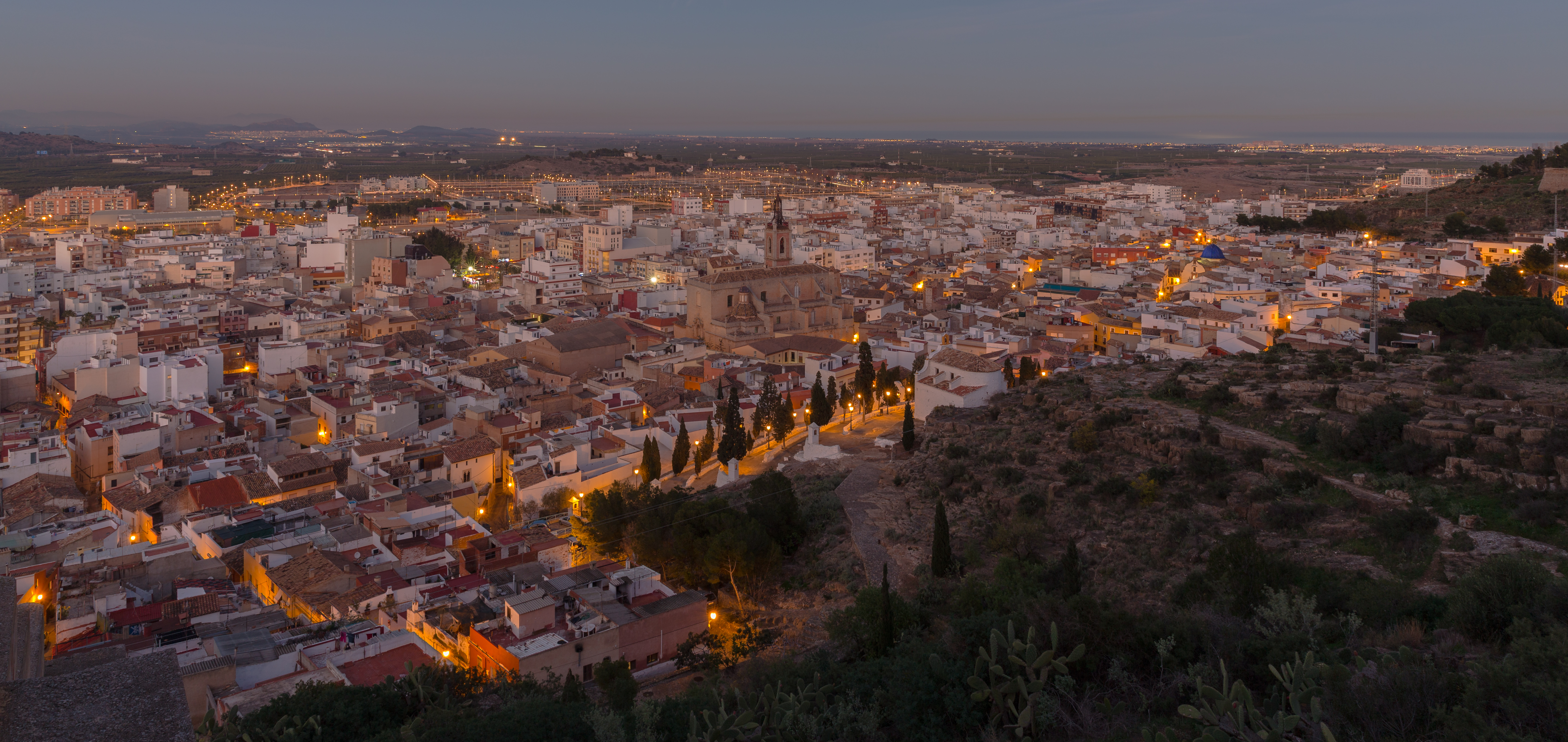 View of Sagunto, Spain